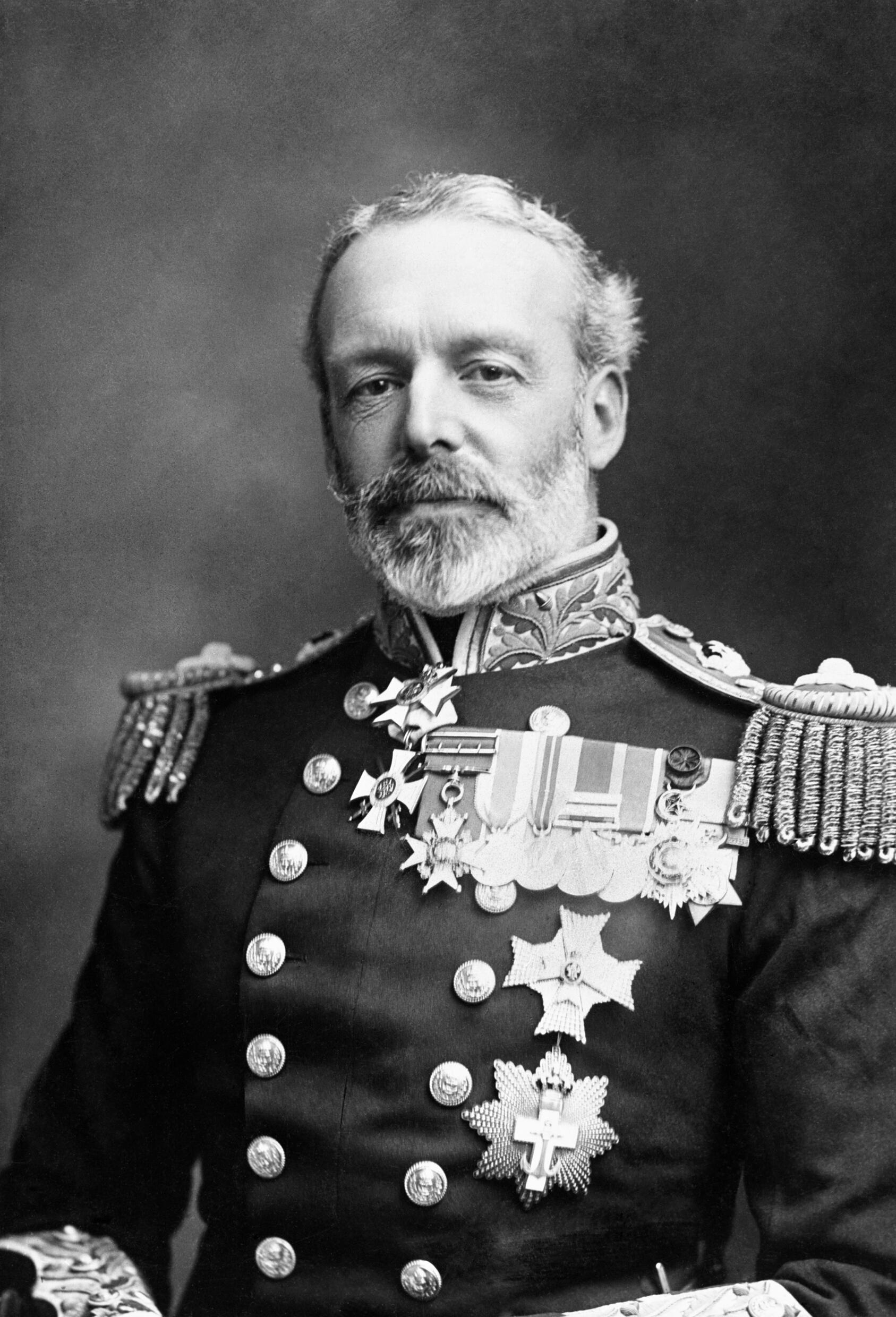 Rear-admiral Sir Christopher Cradock Rear-Admiral Sir Christopher "Kit" George Francis Maurice Cradock KCVO CB SGM. Unit: Royal Navy, 4th Squadron, HMS Good Hope. Death: 01 November 1914.